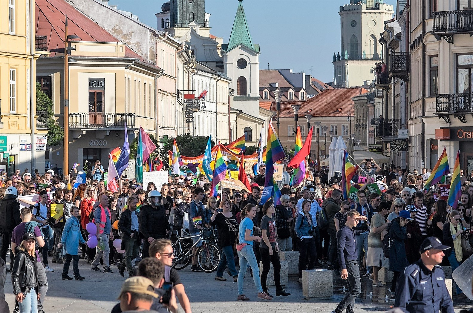 Marsz Równości w Lublinie.Marsz Równości w Lublinie